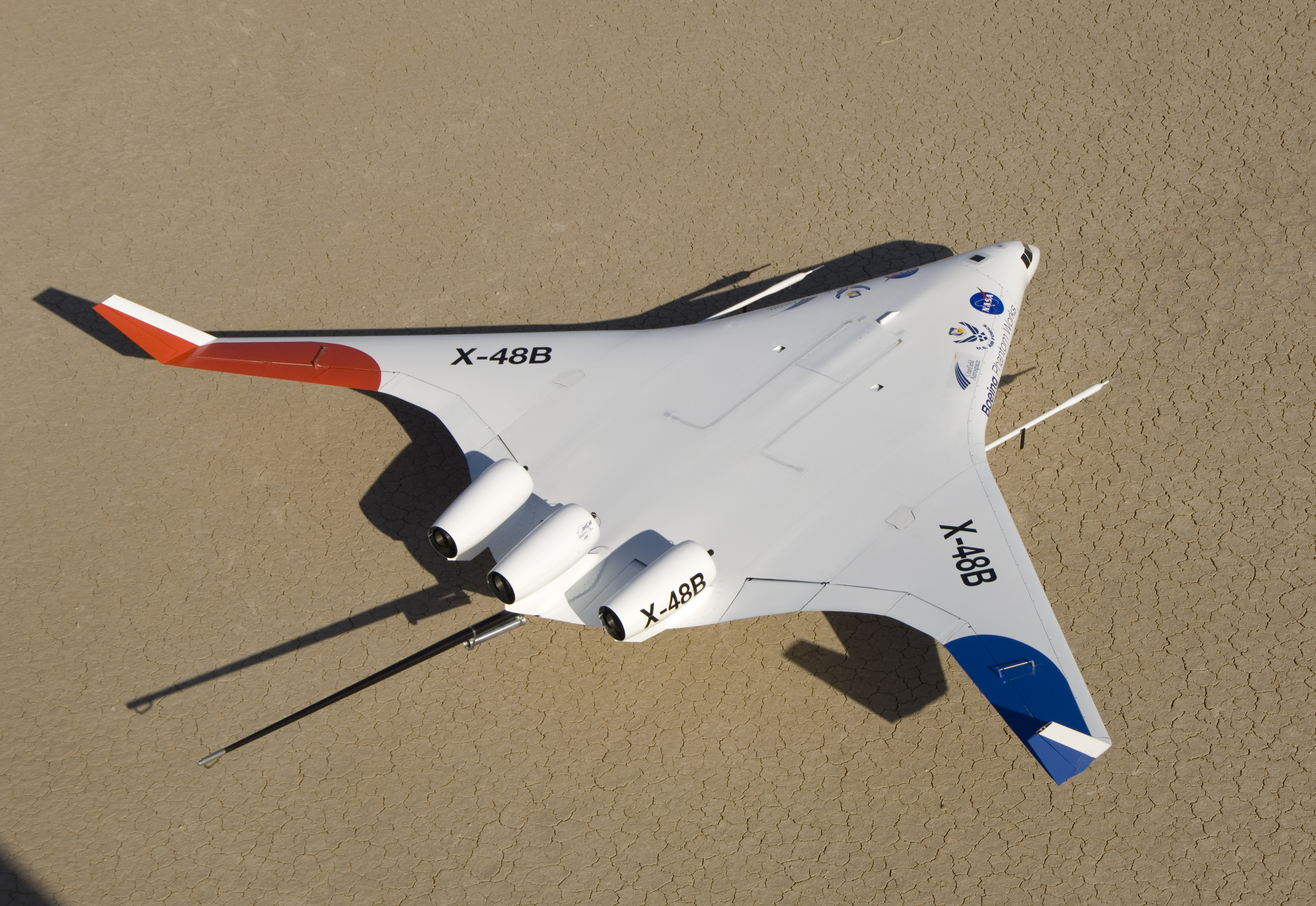 This rear-quarter view shows off the unique lines of Boeing's X-48B Blended Wing Body technology demonstrator on Rogers Dry Lake adjacent to NASA Dryden. Boeing Phantom Works has partnered with NASA and the Air Force Research Laboratory to study the structural, aerodynamic and operational advantages of the advanced aircraft concept, a cross between a conventional plane and a flying wing design. The Air Force has designated the prototype the X-48B based on its interest in the design's potential as a multi-role, long-range, high-capacity military transport aircraft.